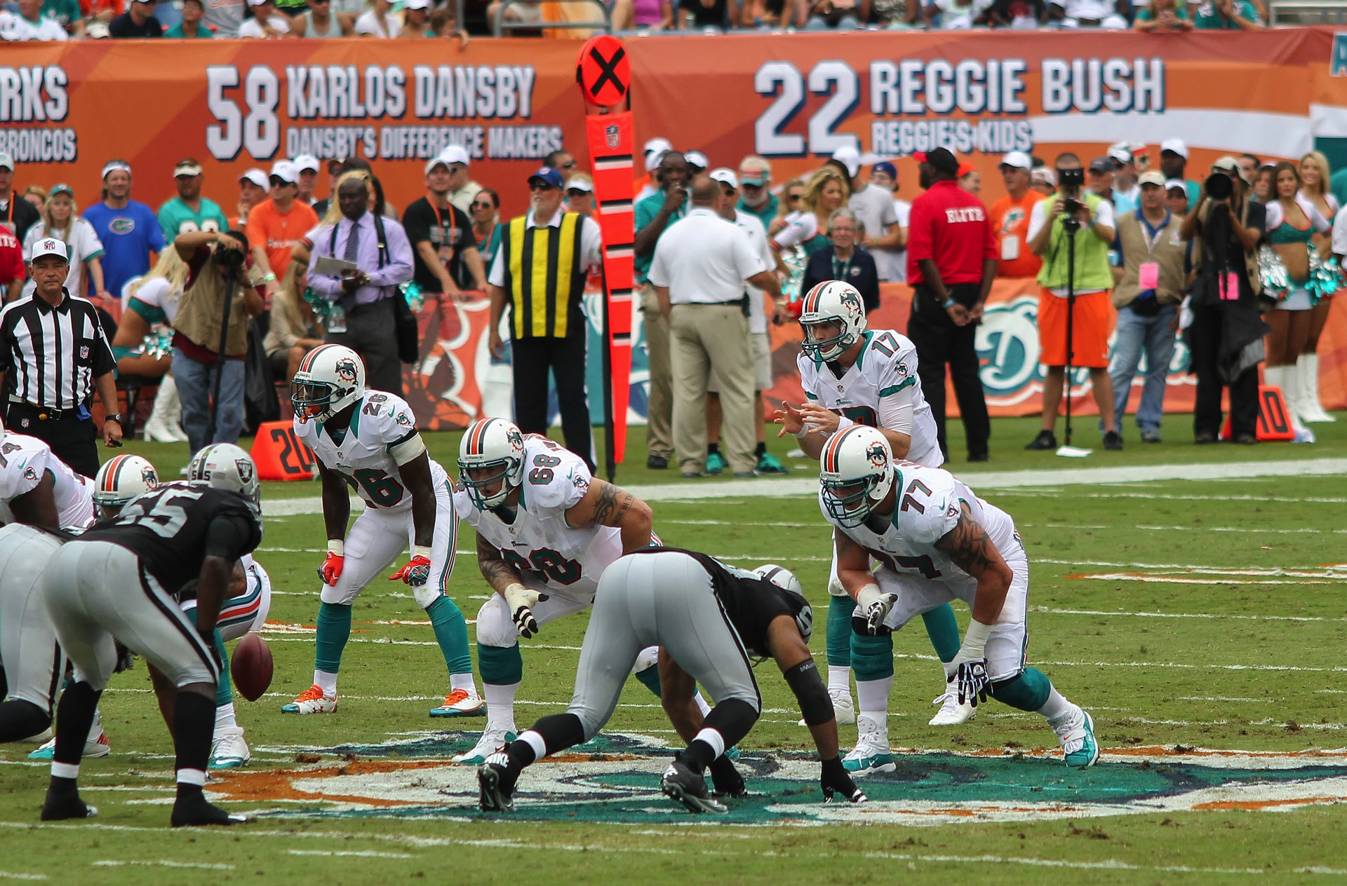 Quarterback Ryan Tannehill of the Miami Dolphins